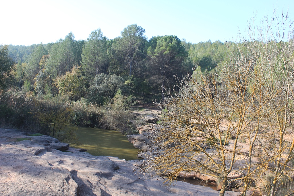 Gorg Blau de la riera de Rajadell